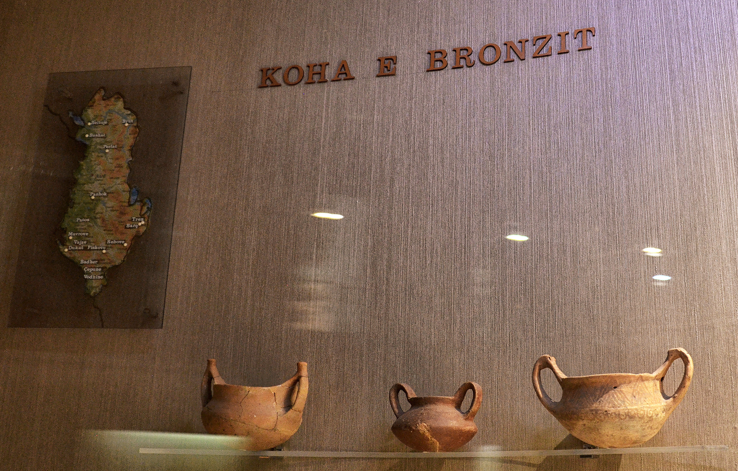 Part of the Bronze Age installation in the National Museum of History in Tirana, Albania